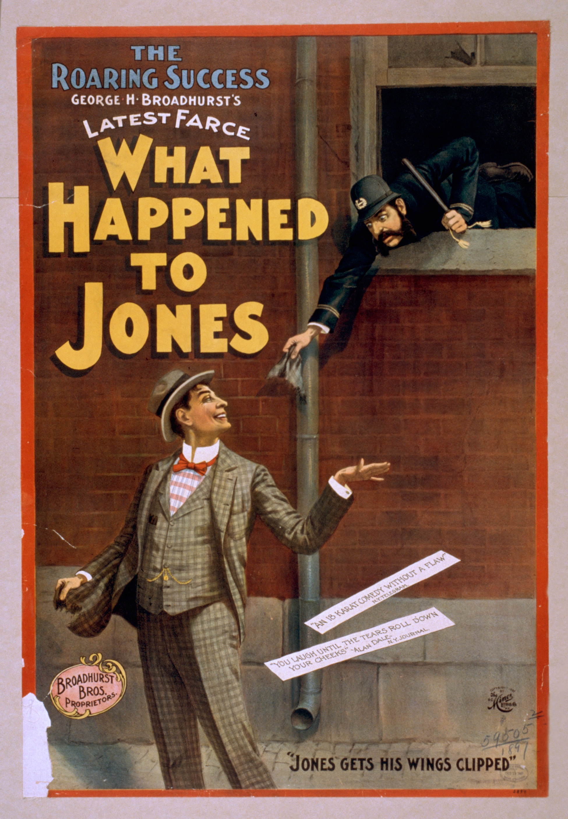 Title: The roaring success, George H. Broadhurst's latest farce, What happened to Jones Creator(s): H.C. Miner Litho. Co. Date Created/Published: N.Y. : H.C. Miner Litho. Co., c1897. Medium: 1 print (poster) : lithograph, color ; 101 x 69 cm. Repository: Library of Congress Prints and Photographs Division Washington, D.C. 20540 USA Part of: Theatrical Poster Collection (Library of Congress)